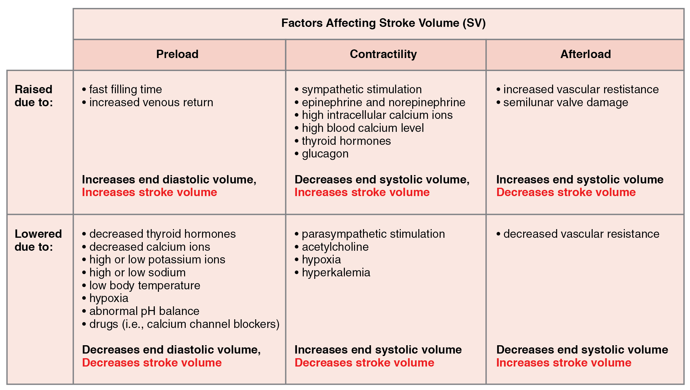 Illustration from Anatomy & Physiology, Connexions Web site. Jun 19, 2013.